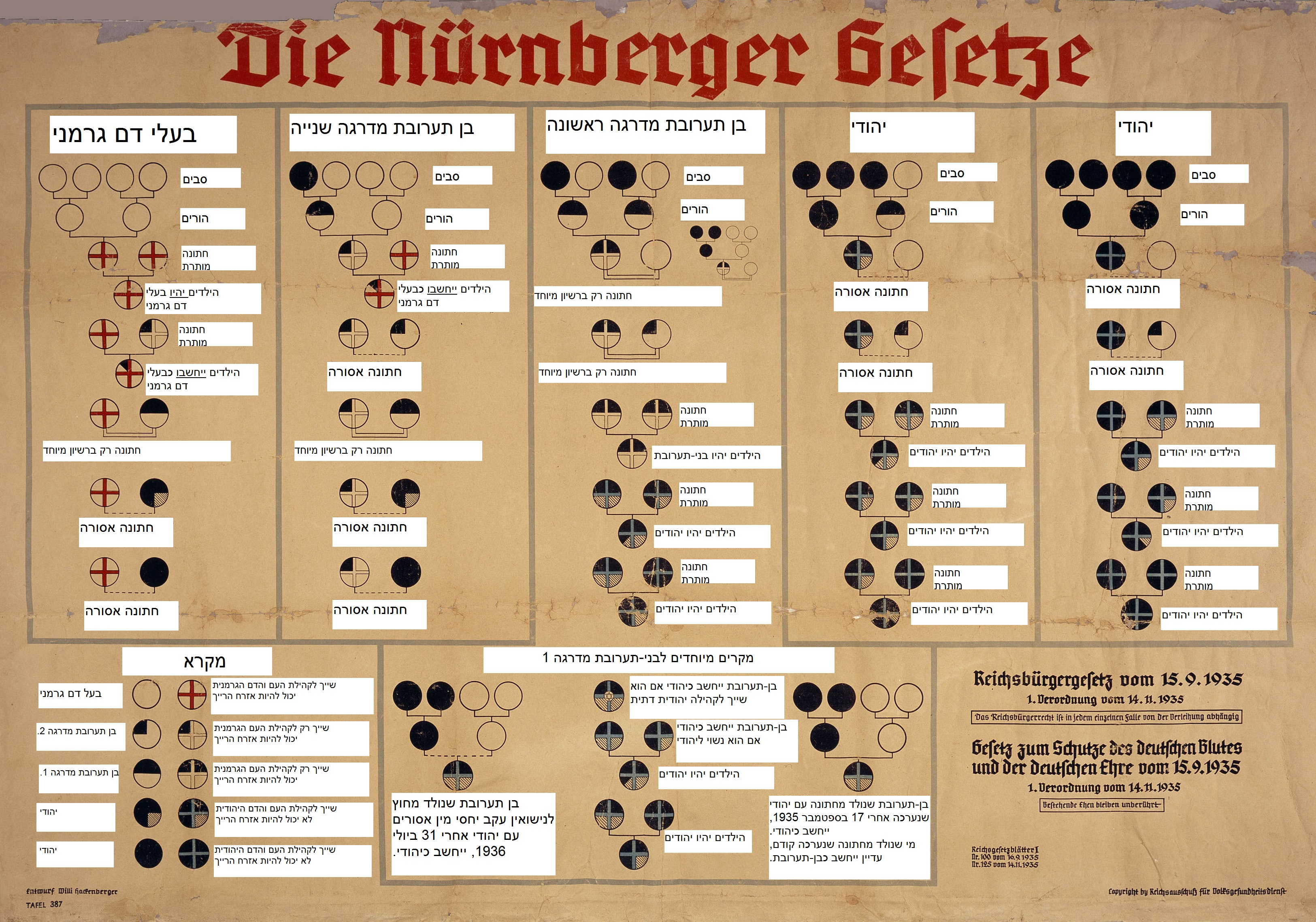 A translation to Hebrew of File:Nuremberg laws.jpg.